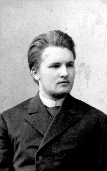 Alexey Ukhtomskiy